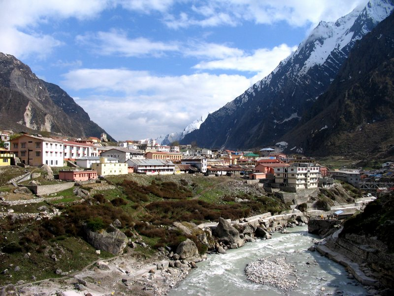 Badrinath town, Uttarakhand (May, 2005)